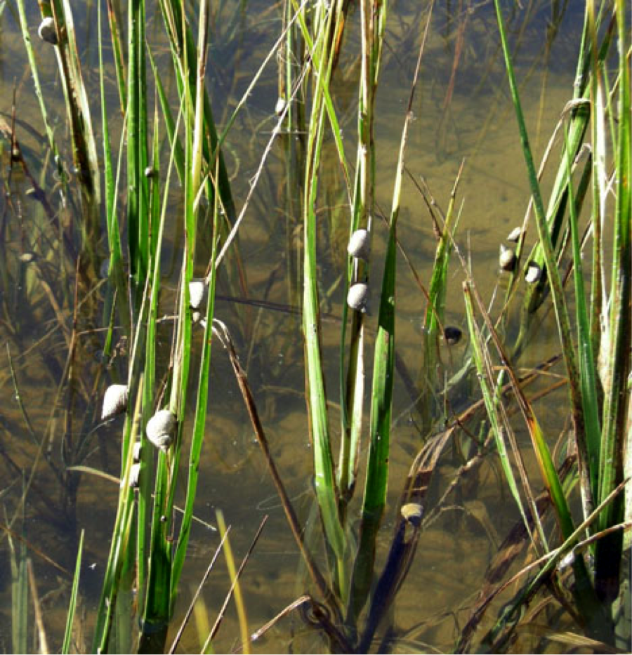 Snails eating fungus on cordgrass